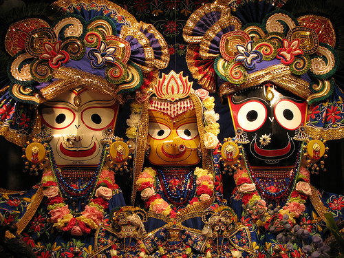 Lord Balabhdra, Goddess Subhadra and Lord Gagannath sitting on a Golden throne. Lord Balabhadra is the eldest followed by Lord Jagannath and younger sister Subhadra.